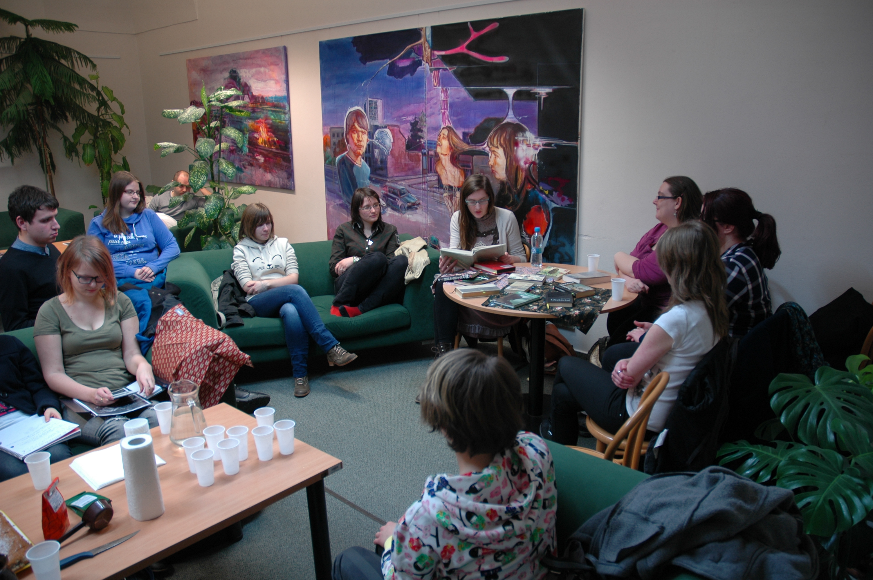 Reader´s club focused on Japan literature, Library of Palacký University in Olomouc, Czech Republic.